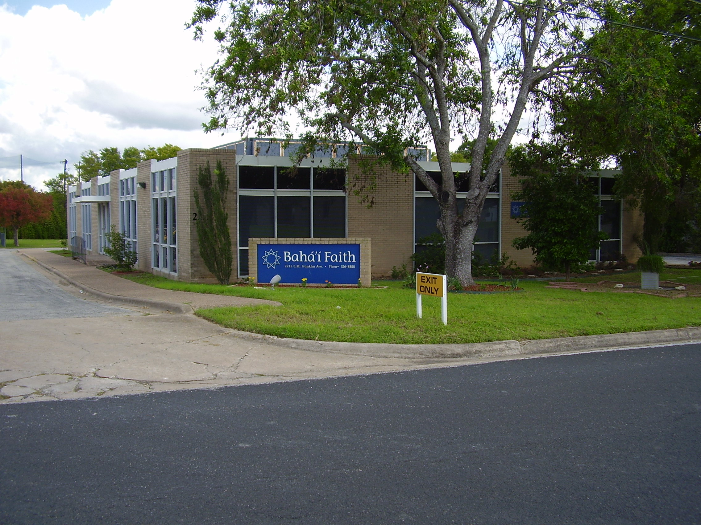 Bahá'í Faith Center in Austin - Formerly the headquarters of Conquest Airlines